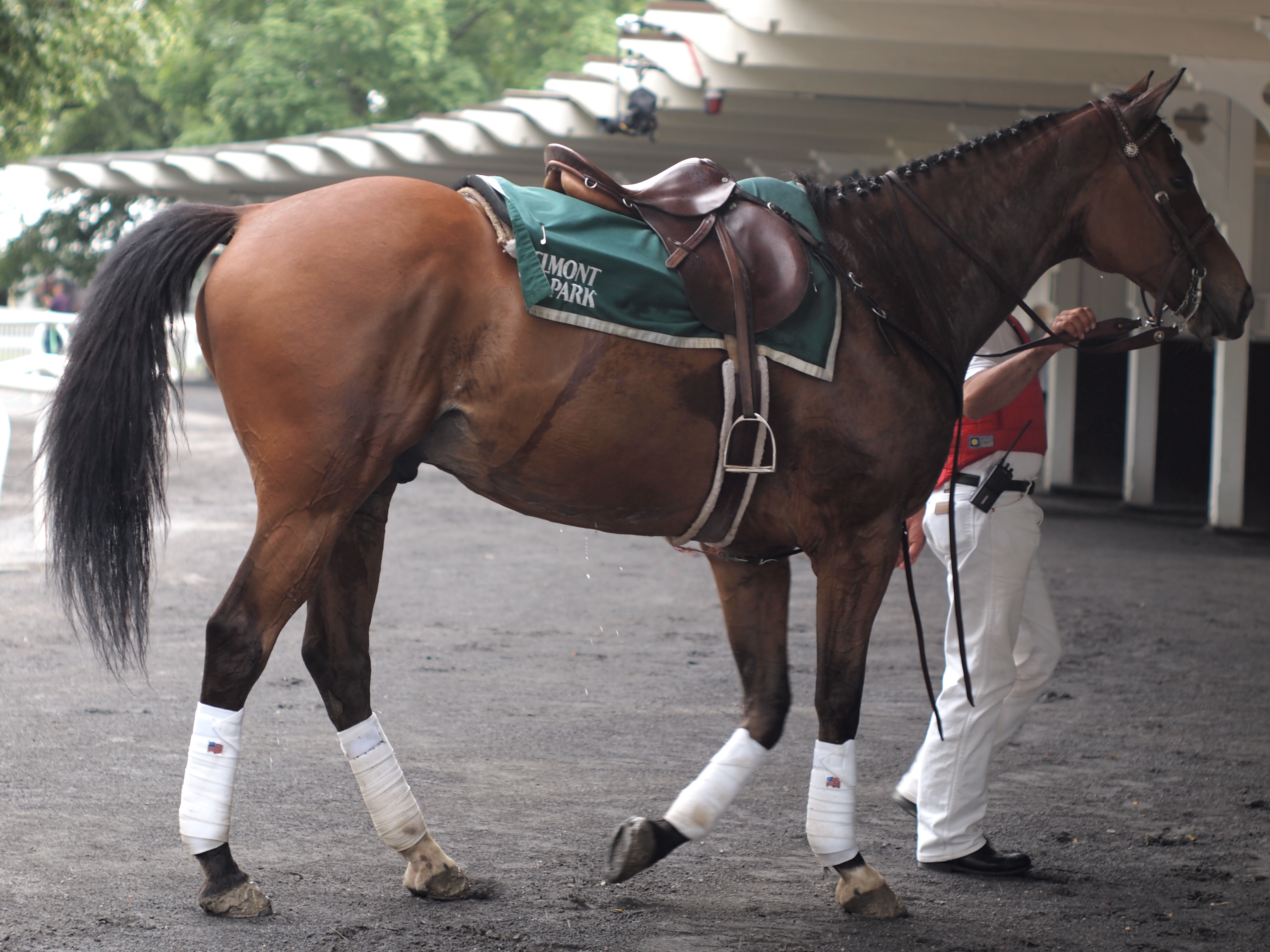 Images taken at Belmont Park on Belmont Stakes day, June 5, 2010